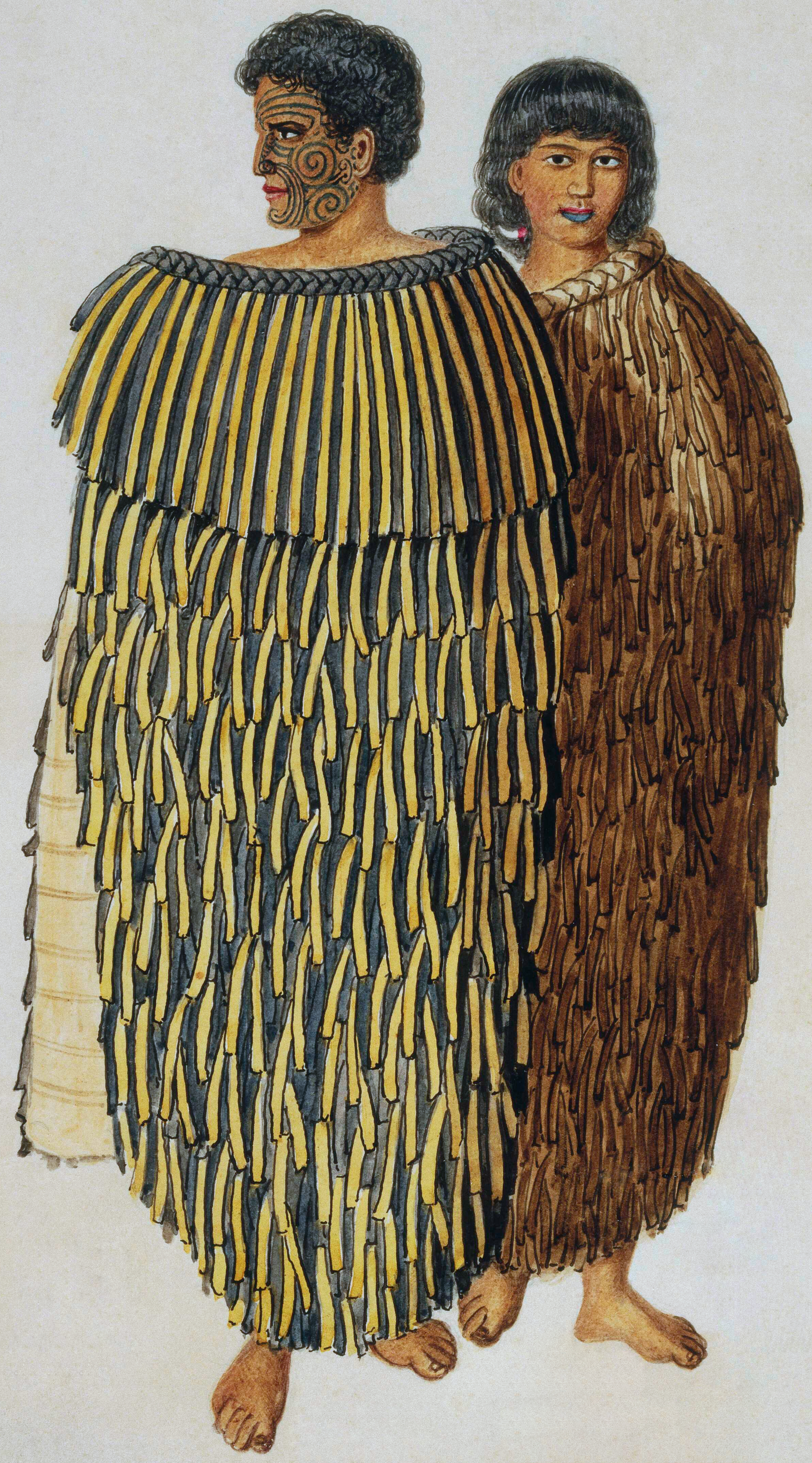 Hone Heke standing, his face in profile, wearing a flax cloak. At his left side and slightly behind him is Hariata, his wife, also in a flax cloak.